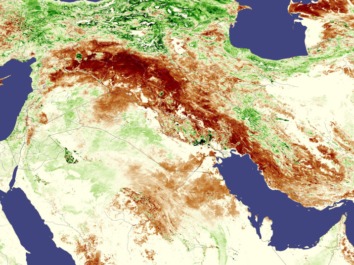 Near East drought: Vegetation anomaly 2006-2010.